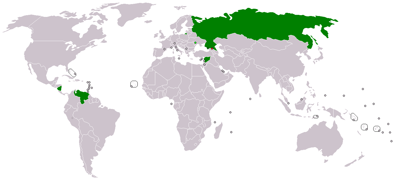 Map of States that maintain diplomatic relations with South Ossetia South Ossetia States that recognize South Ossetia and maintain diplomatic relations with it States that recognize South Ossetia only